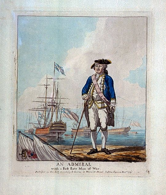 An Admiral with a First Rate Man of War (uniform); etching, coloured, Nov 1777